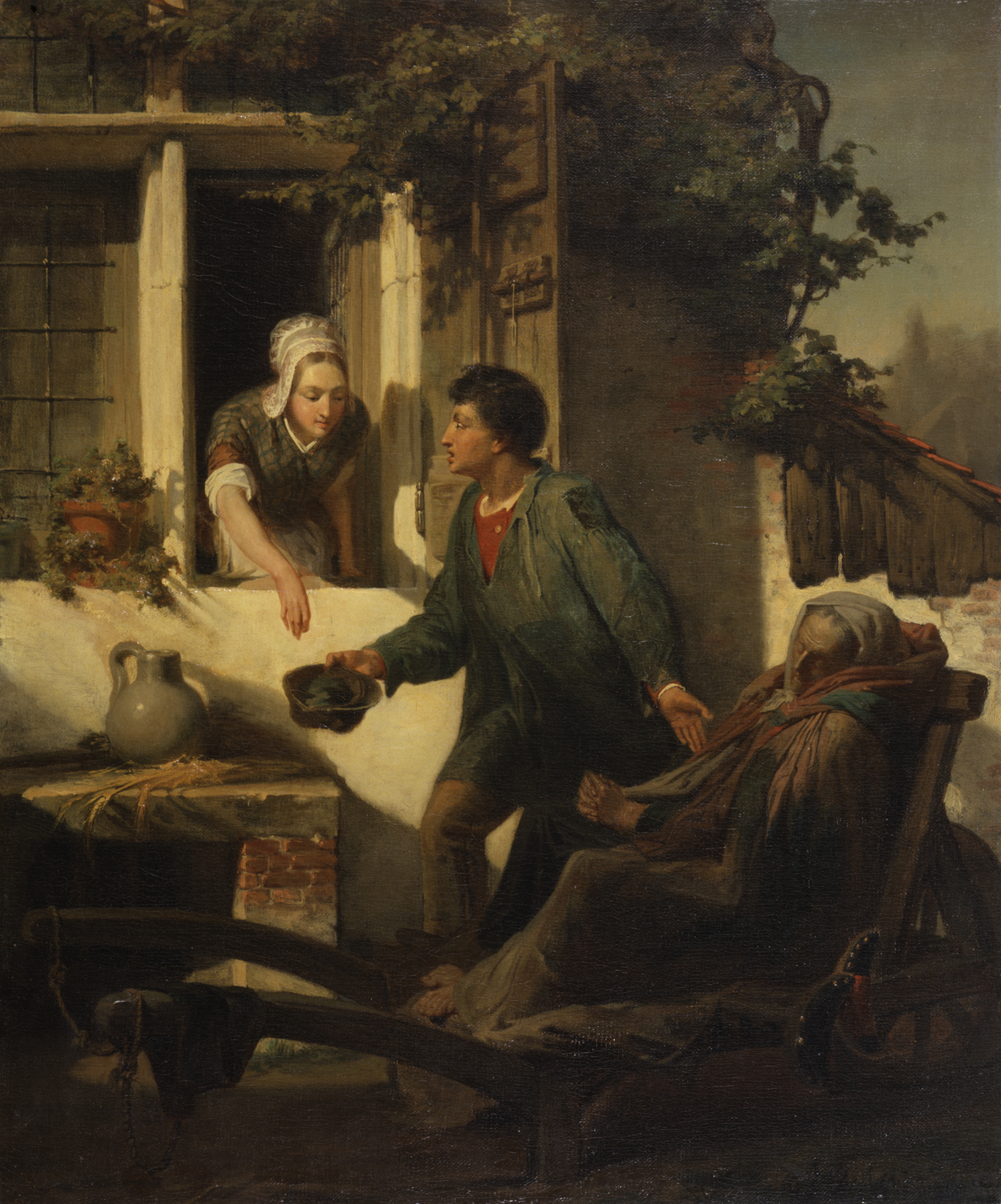 Bathed in sunlight, an attractive young woman in Dutch country dress leans from an open window in one corner of a vine-covered cottage. She reaches out to drop coins in the hat of a young man outiside her window, who is wearing a patched and dirty tunic. He is soliciting charity on behalf of an elderly woman, who waits beside him in a wheeled, hand-drawn conveyance. A glimpse of a distant landscape is visible over the brick wall to the right. Although Alma-Tadema was only 20 when he painted this scene, he already shows in it the narrative skills that will bring him such success with his later re-creations of life in Greek and Roman antiquity. This genre scene was the artist's first major commission.